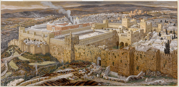 Jerusalem and the temple from the series The Life of Christ by James Tissot, Brooklyn Museum